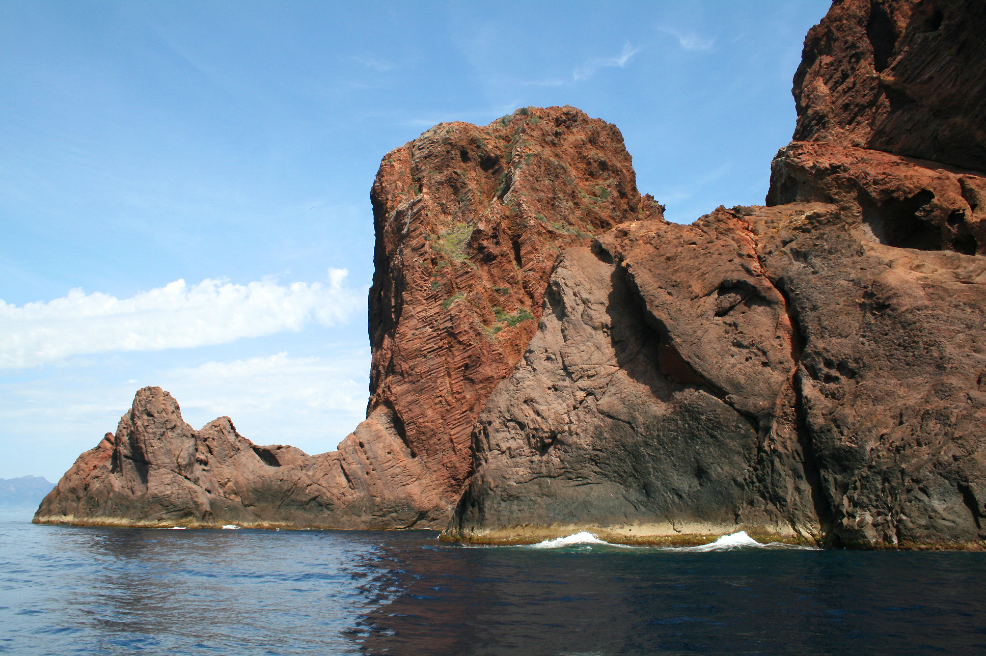 Osani (Corse-du-Sud) - France, Scandola Nature Reserve.